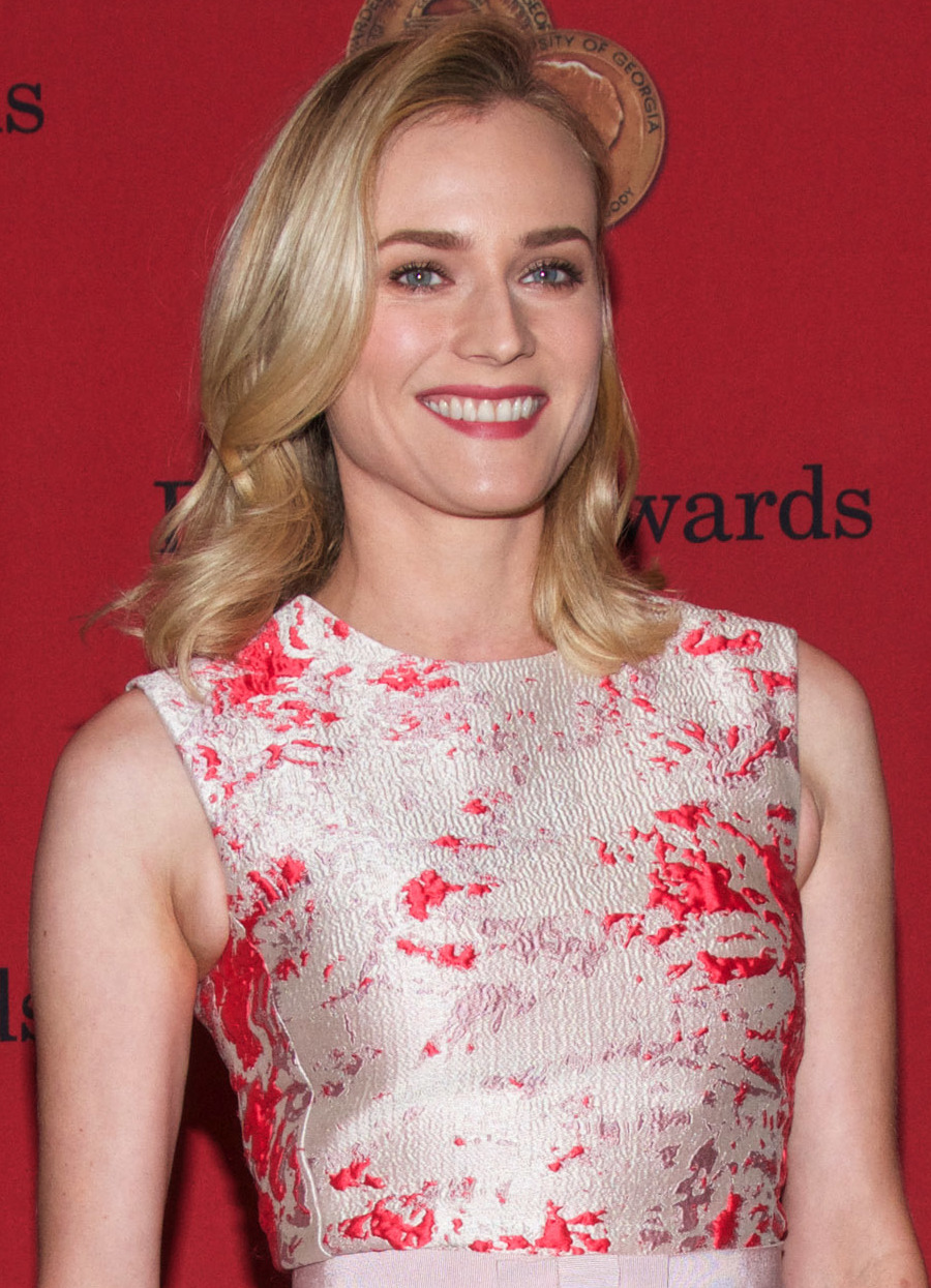 Diane Kruger at the Peabody Awards for "The Bridge"